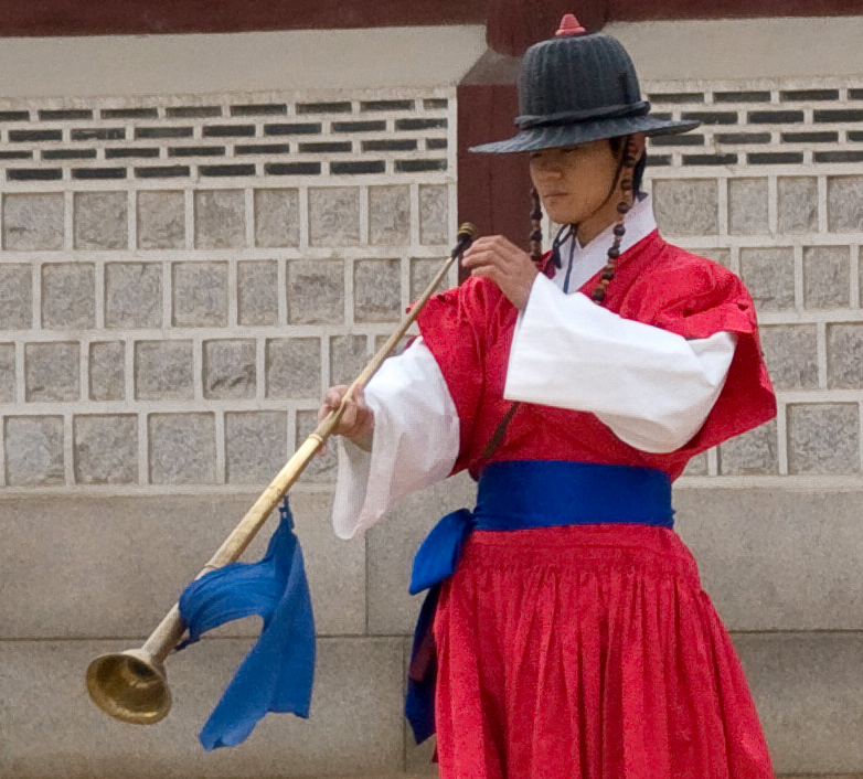 Nabal, a Korean traditional musical instruments. Cropped the relevant item from the original.